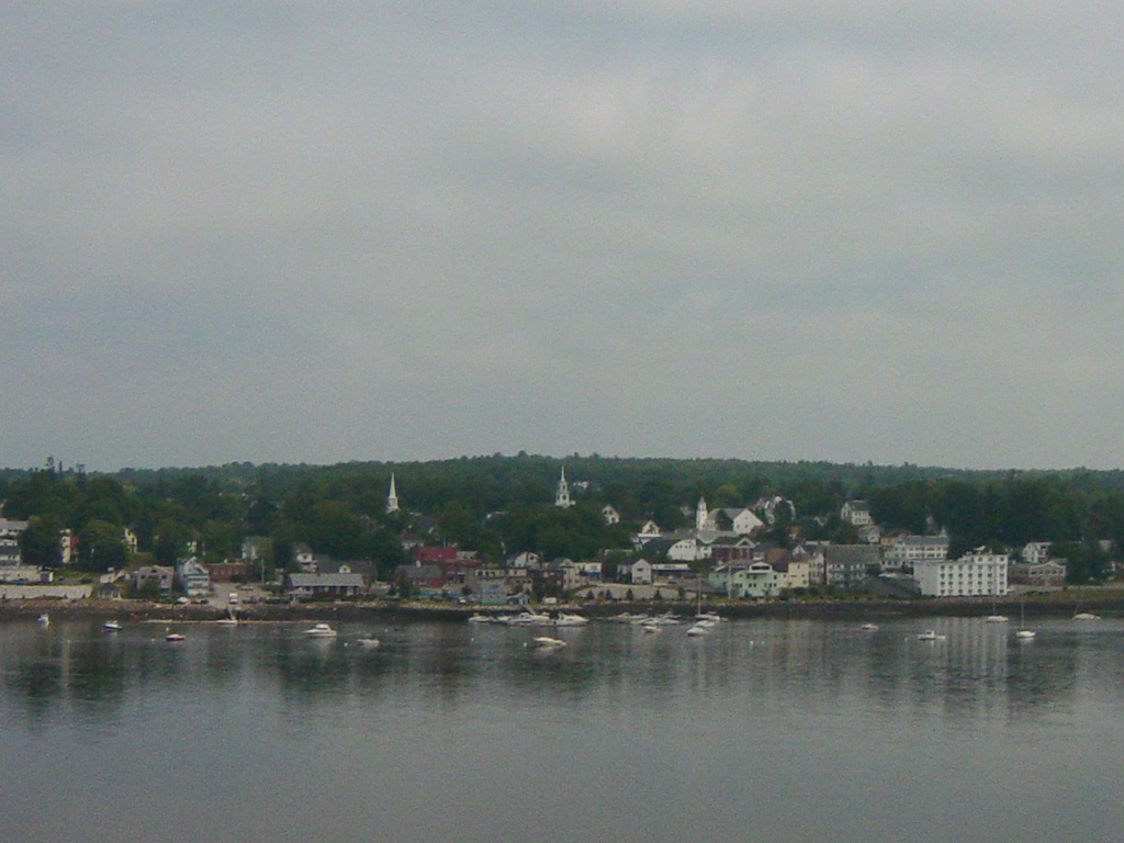 Bucksport as seen from across the Penobscot River from Fort Knox. Image by User:Leonard G.